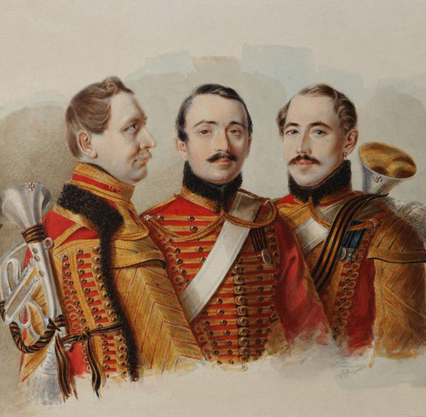 Trumpeters of LGHR